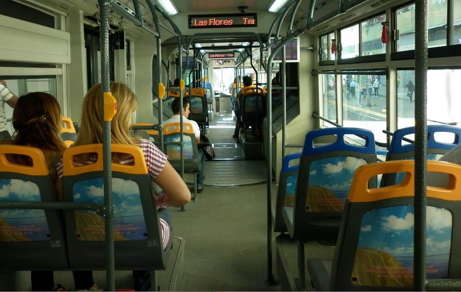 Buscaracas, Venezuela 2012